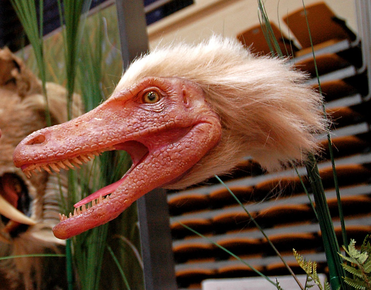 Velociraptor head reconstruction.